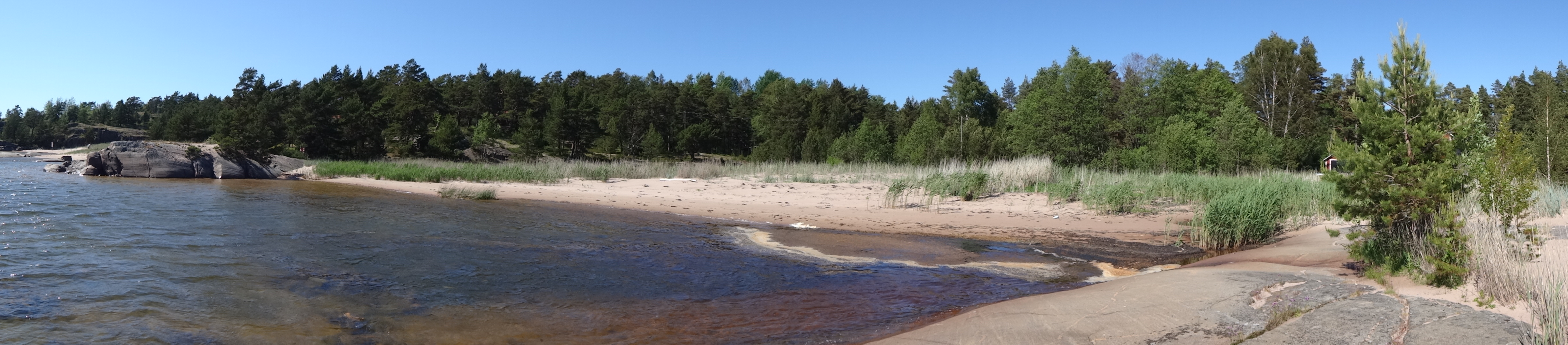 A panoramic image stitched "in-camera", shot by rotating the camera while it was taking multiple exposures. Location: Hanko, Finland.